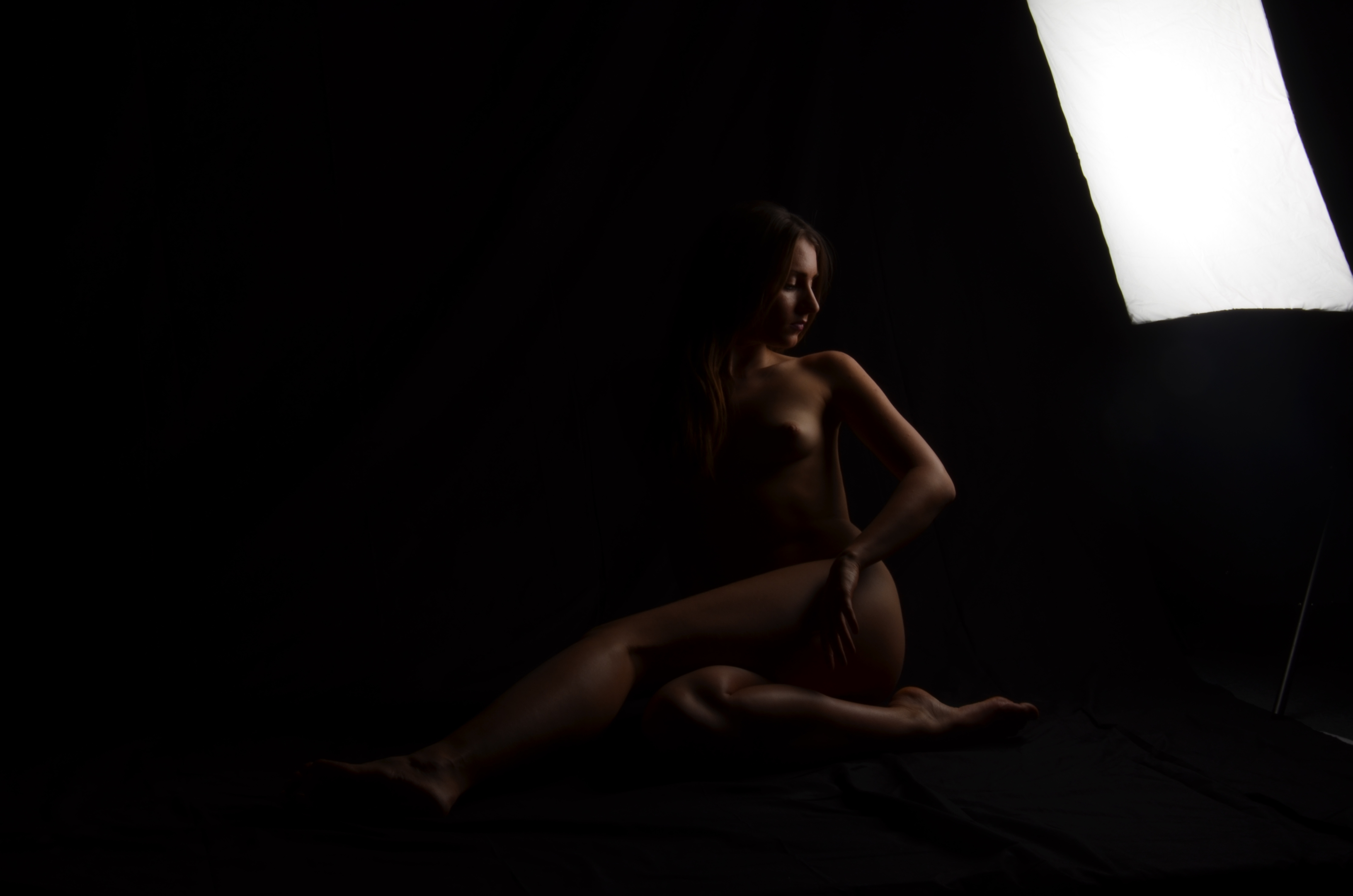 Nürnberg, 10. Wikipedia-Fotoworkshop, Aktstudien - Devices and pose for a low-key photo session